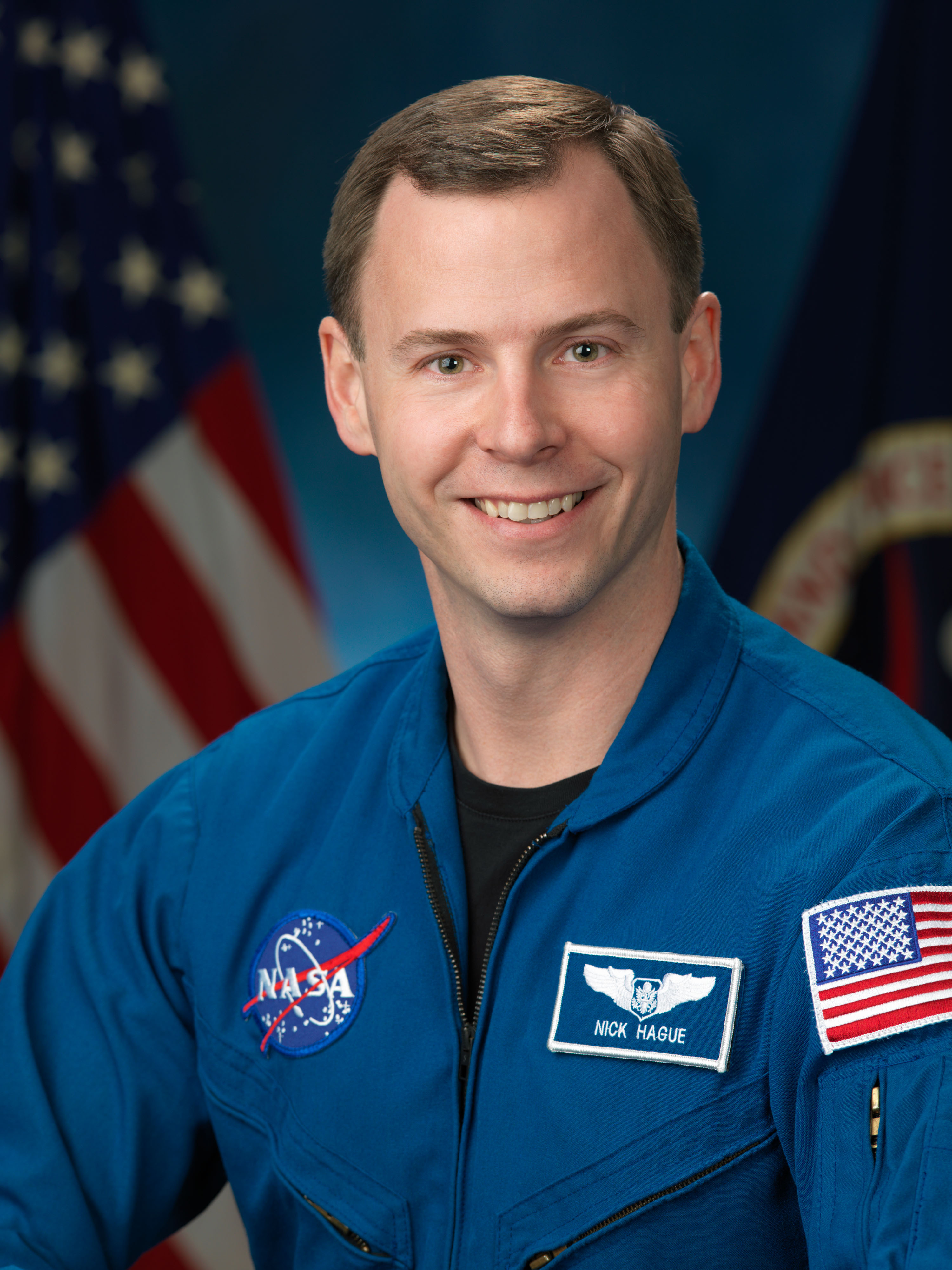 Tyler N. (Nick) Hague, NASA astronaut candidate class of 2013.